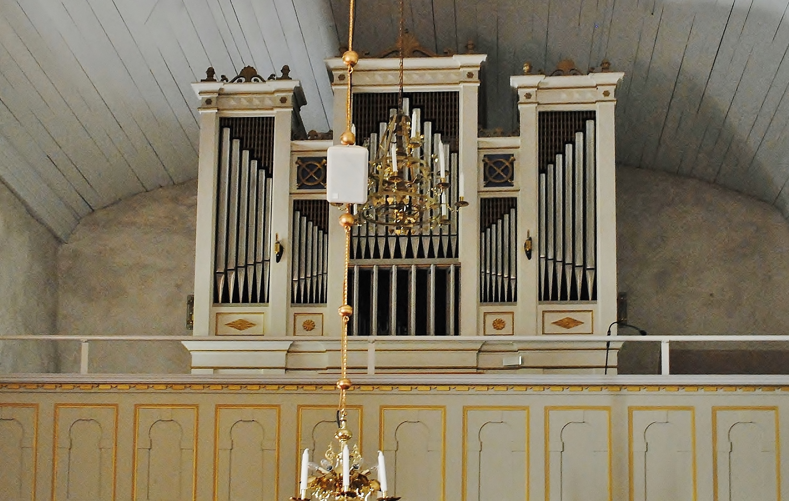 Moheda. Church.The organ